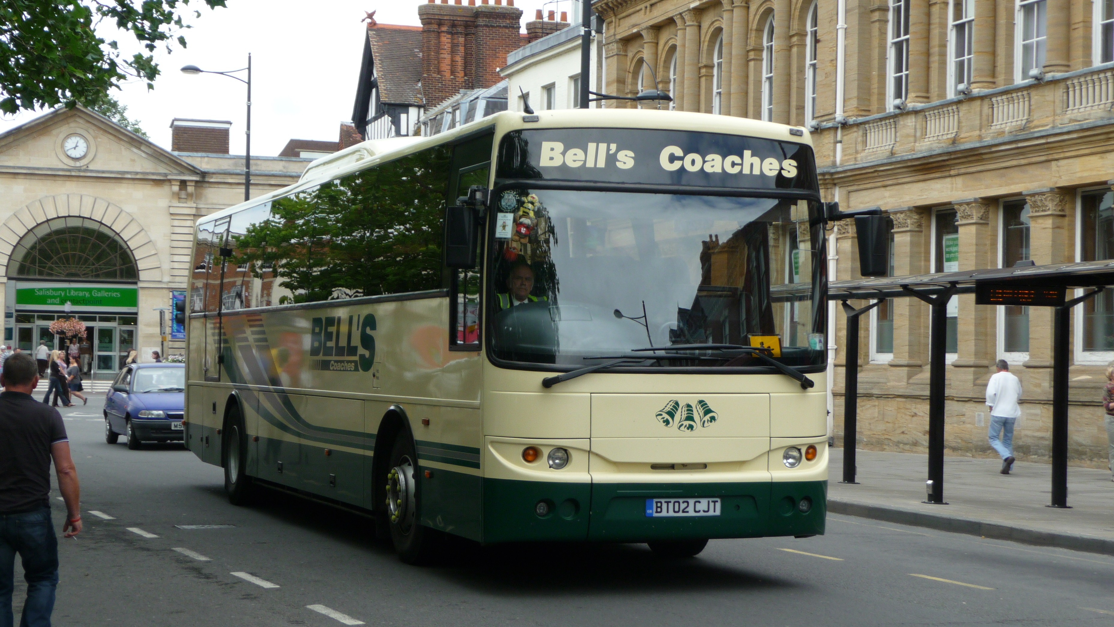 Bell's Coaches 6062 (BT02 CJT), a Volvo B7R/Jonckheere, in Blue Boar Row, Salisbury, Wiltshire. Bell's Coaches is part of Tourist Group, itself the coaching division of bus company Wilts & Dorset. The coach's fleet number fits into the group numbering system. This coach wears the previous livery. All Tourist Group fleets now have a new livery, with the same base livery scheme and differing fleet names.